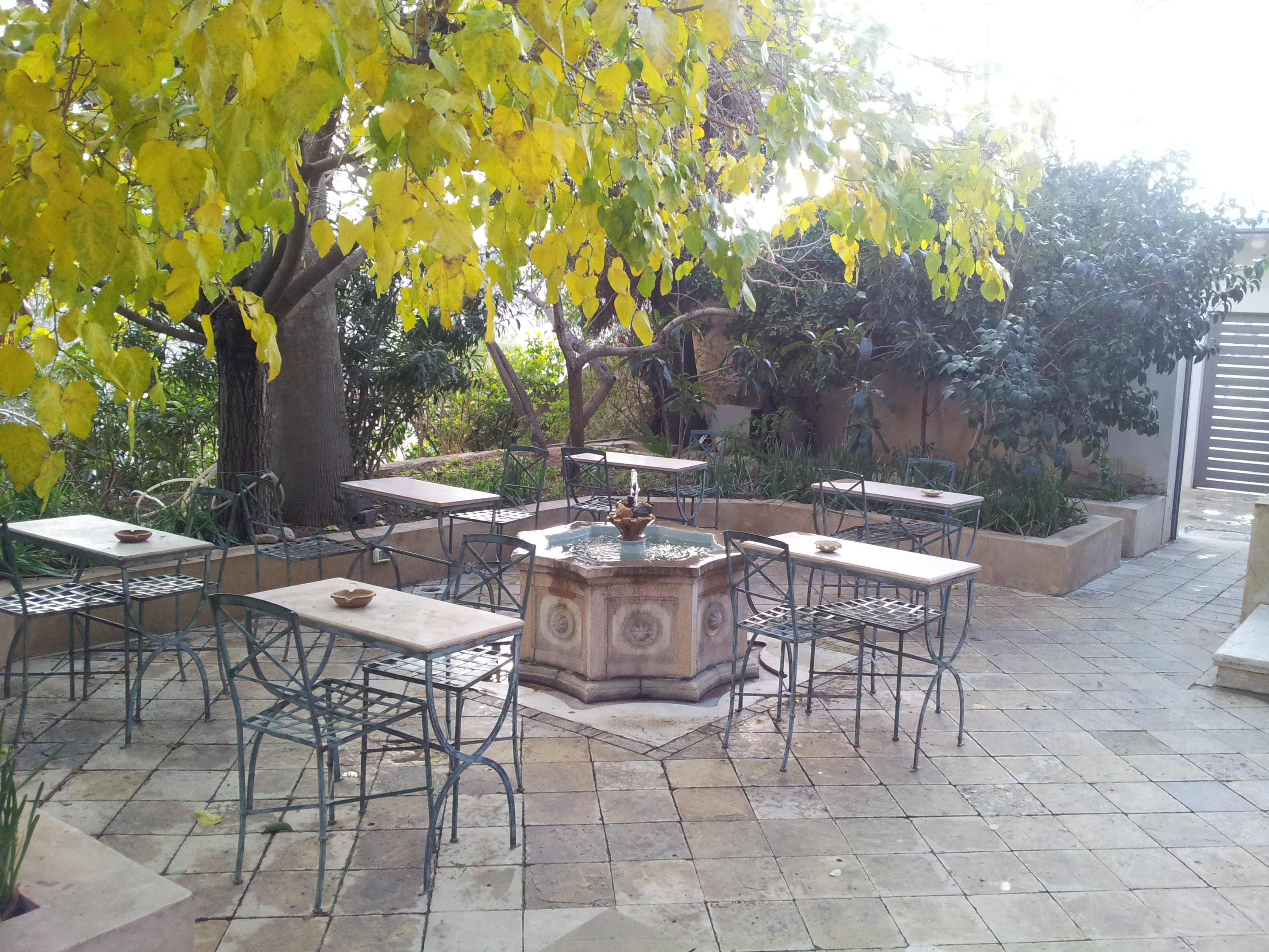 Darat Al Funoun, Amman, Jordan